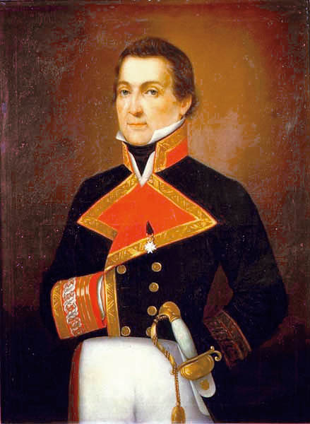 Depicted person: Alessandro Malaspina (1754–1810), brigadier of the Spanish Royal Navy.